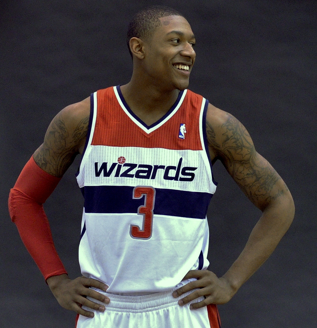 Bradley Beal in Washington Wizard colours.